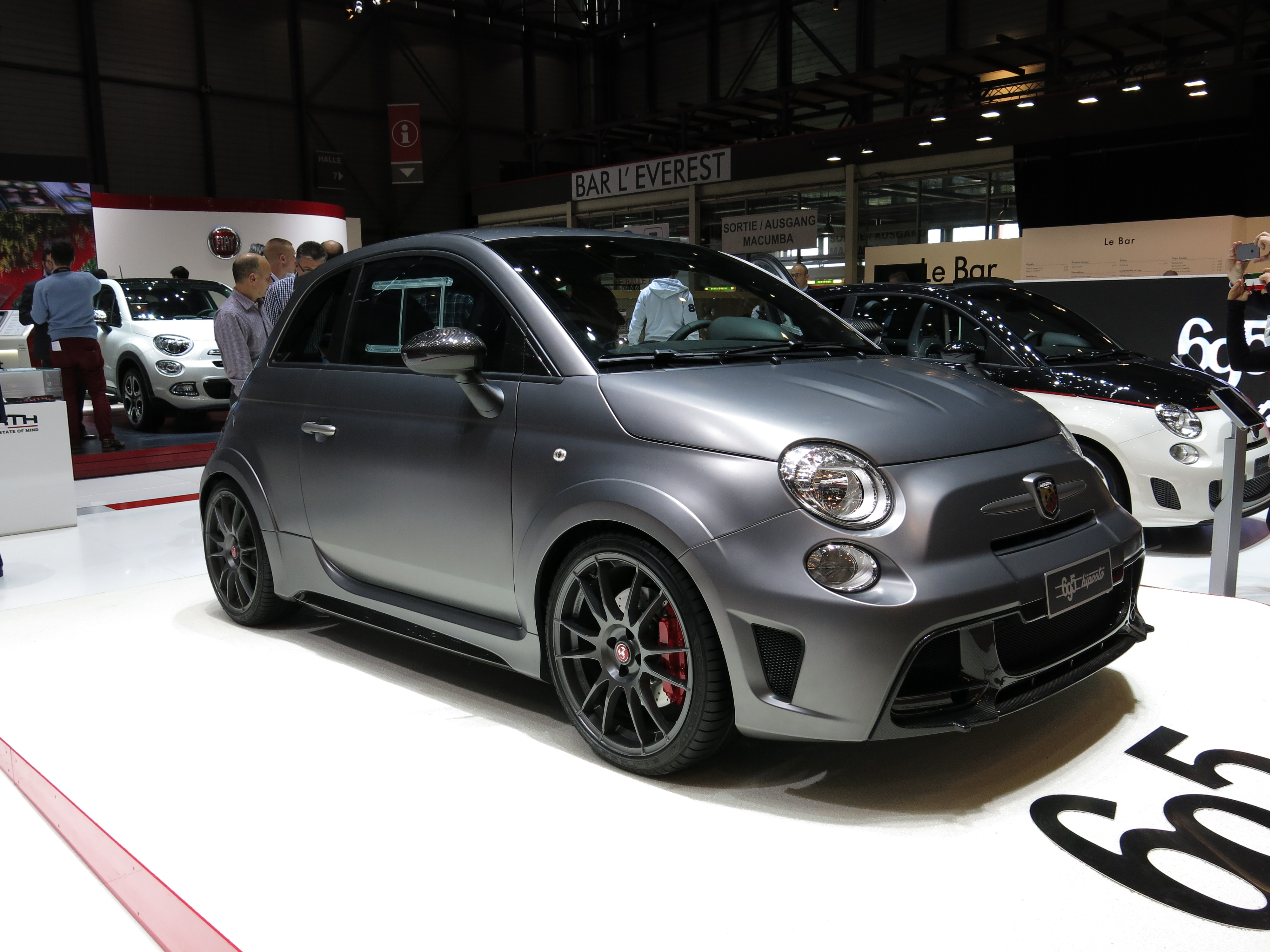 Geneva Motor Show 2015 (photo taken on the first press day)